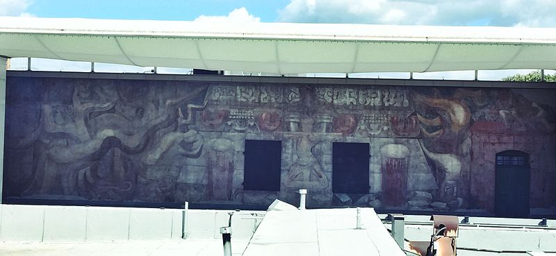 América Tropical: Oprimida y Destrozada por los Imperialismos Italian Hall 2016, Los Angeles.